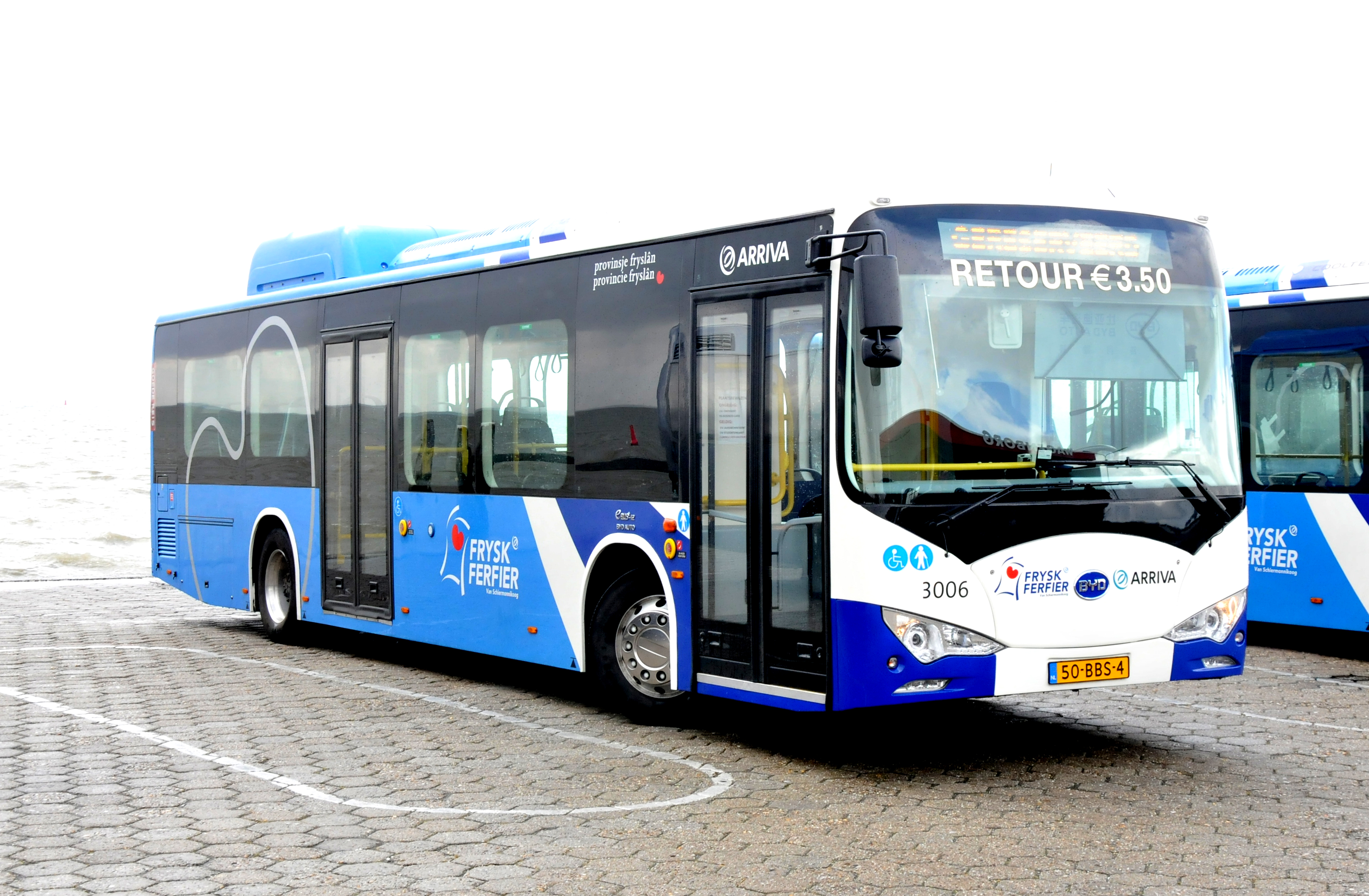 Arriva bus 3006 on the island of Schiermonnikoog; electric K9 bus by Chinese manufacturar BYD. Six of these were bought by the Dutch province of Frysland for use on this island.